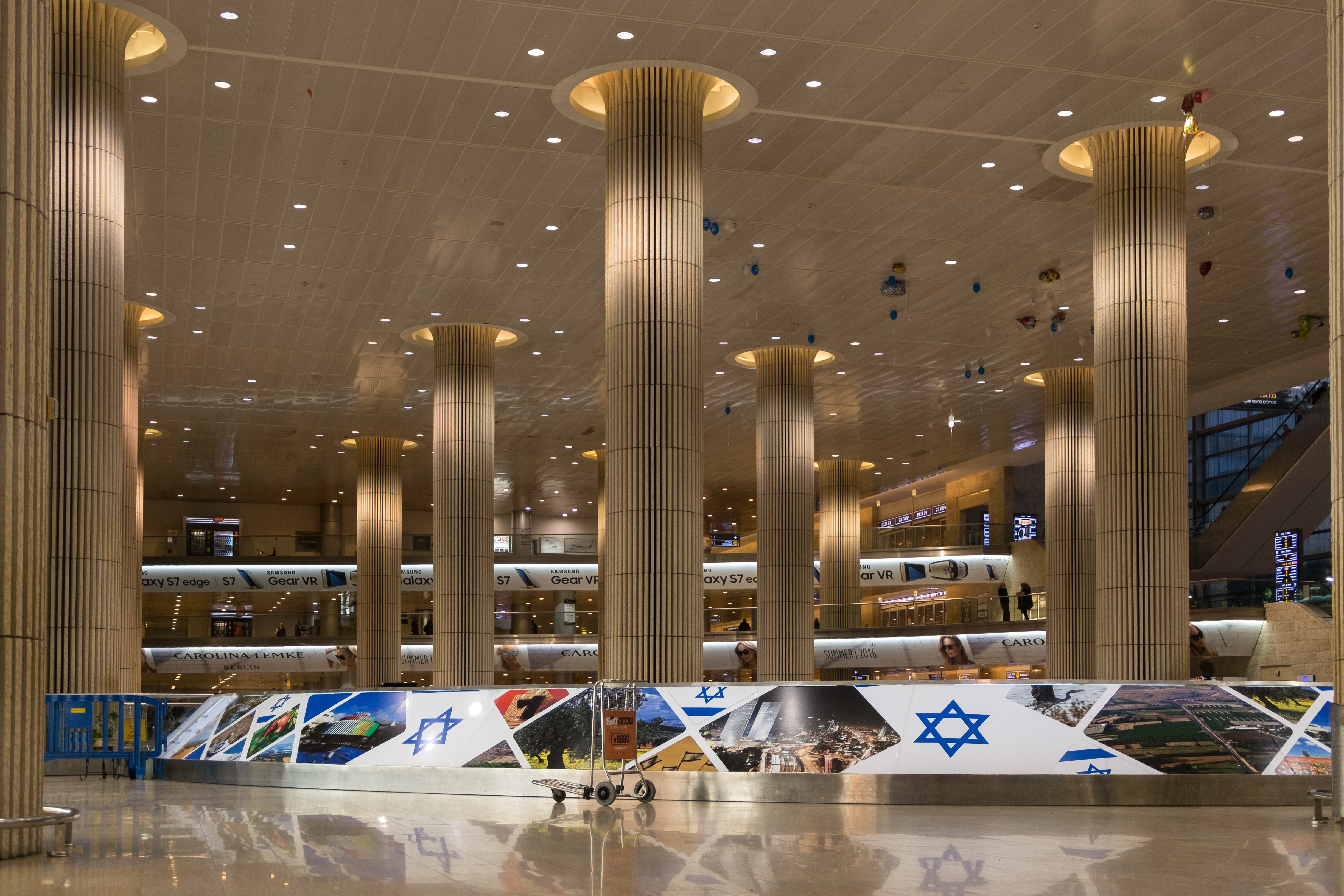 Ben Gurion International Airport Tel Aviv